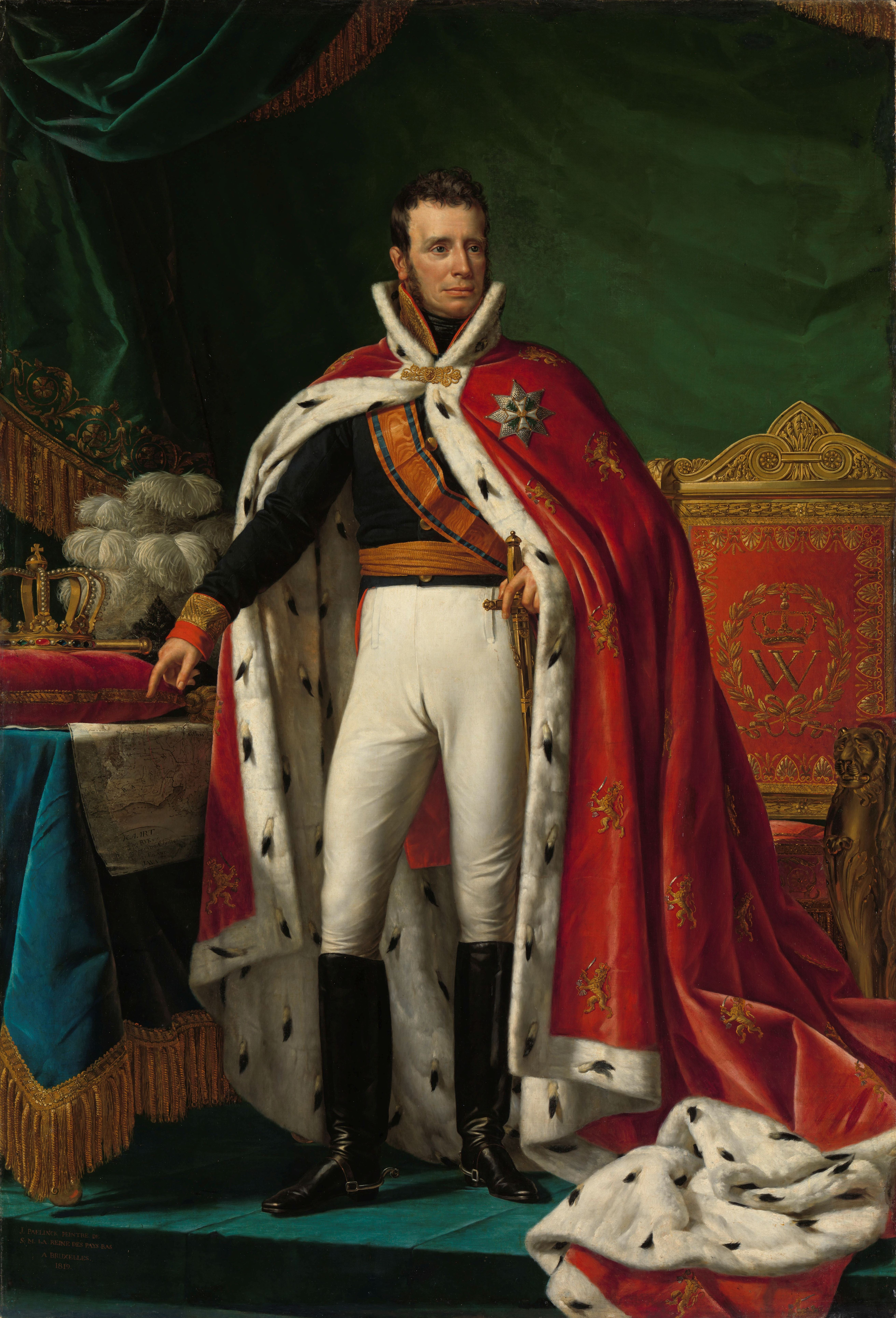 Portrait of William I (1772–1743) as King of the United Kingdom of the Netherlands. Standing, at full-length, in the gala uniform of a general. Over his right shoulder the sash of the Military William Order. Over his uniform wearing a red robe lined with ermine. To the right the royal throne, to the left a table with on it the map of parts of Java (Bantam, Jacatra and Cheribon) in modern-day Indonesia, and also a pillow with crown and sceptre and a hat with ostriche feathers.